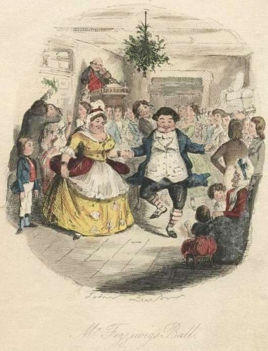 Mr. Fezziwig’s Ball Hand colored etching by John Leech from A Christmas Carol by Charles Dickens.